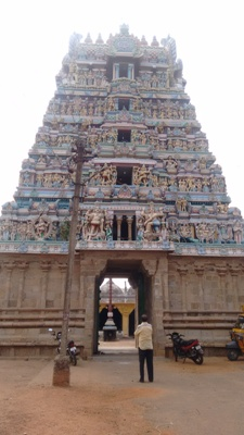 Tirunaraiyursitthanathesvarartemple திருநறையூர்சித்தாநாதேஸ்வரர்கோயில்